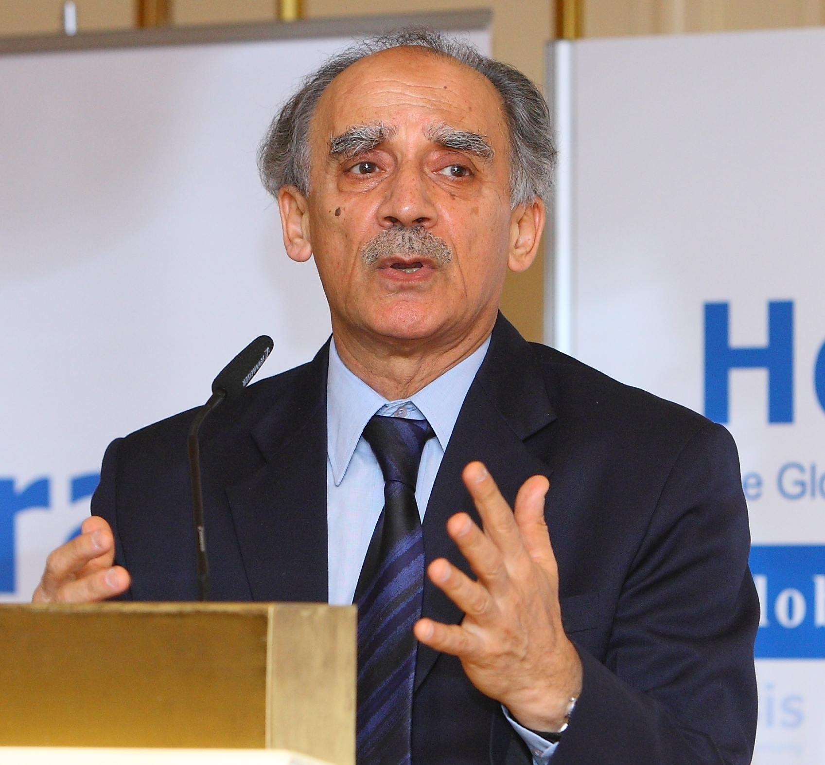 Arun Shourie, Former Minister of Disinvestment, addressing participants at Horasis Global India Business Meeting 2009